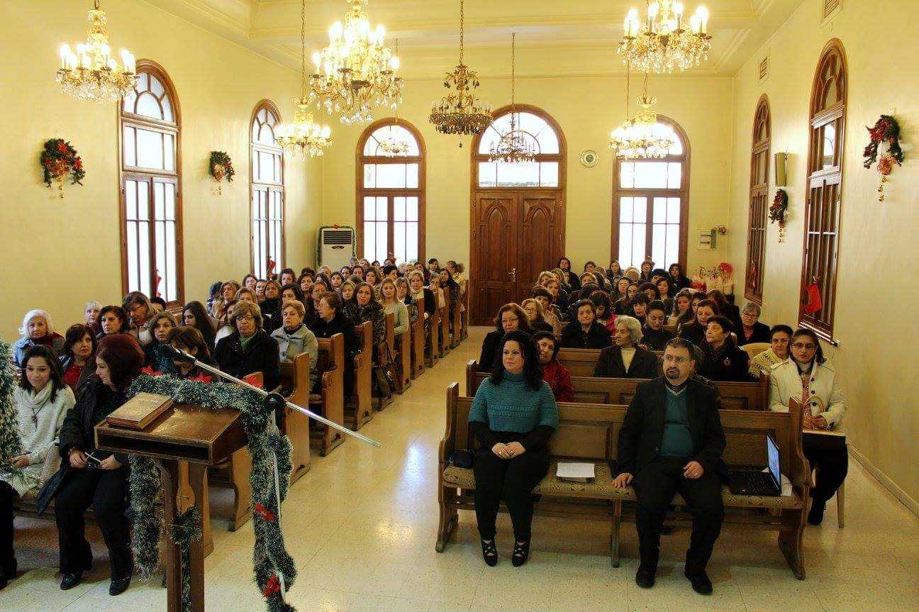 Martyrs' Church, Aleppo 26 Decmber 2017